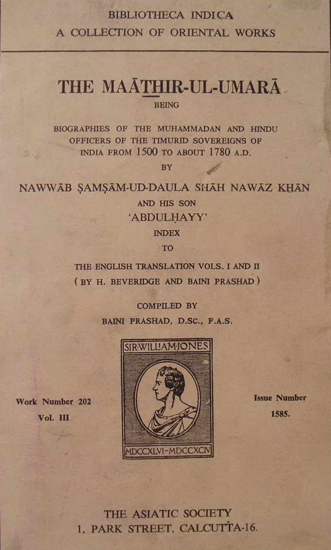 BIBLIOTHECA. INDICA . A COLLECTION OF ORIENTAL WORKS